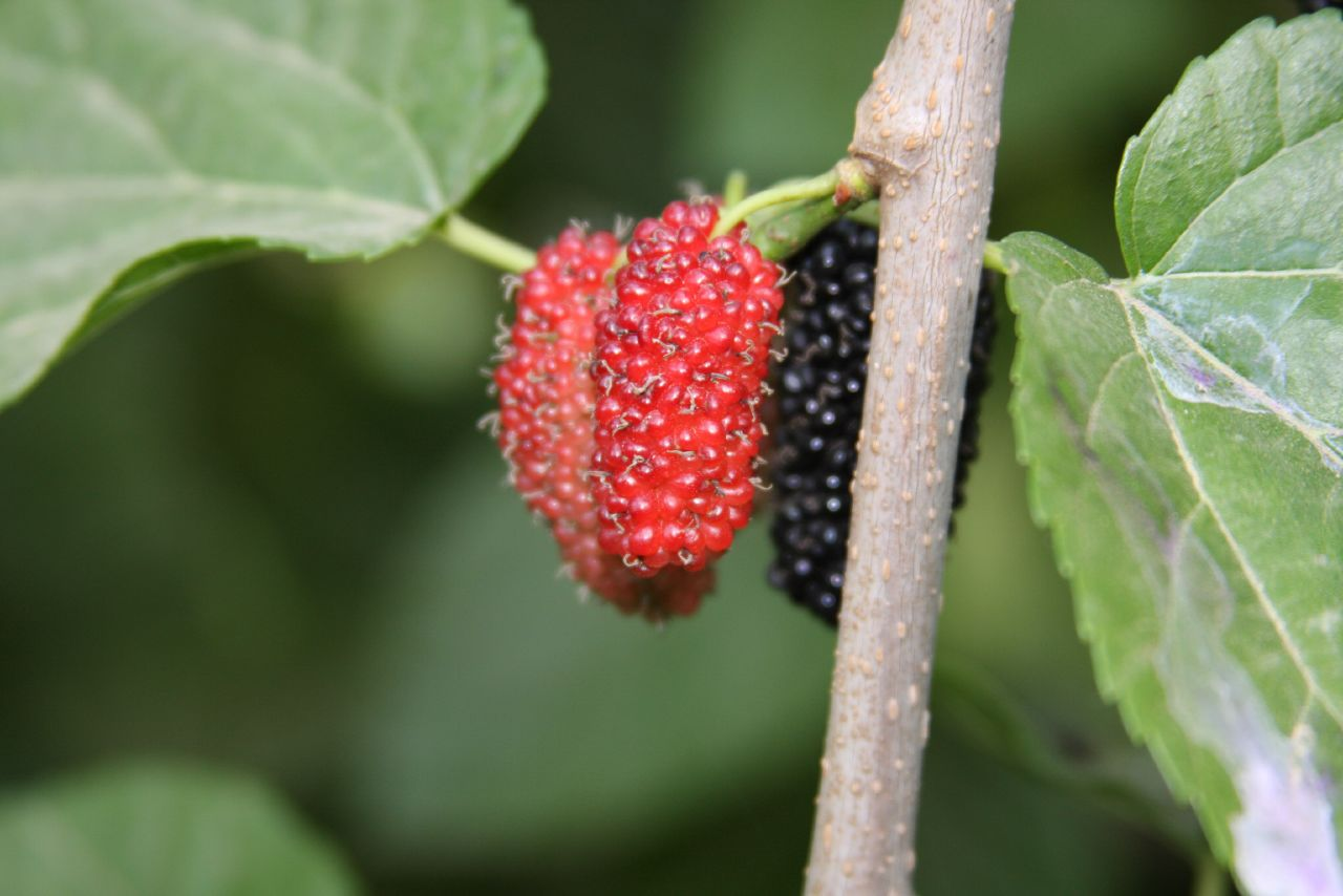 Black Mulberry fruitMulberry